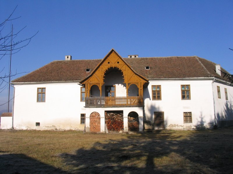 Daniel kastély, Olasztelek (ro. Tălişoara), Kovászna megye, Erdély